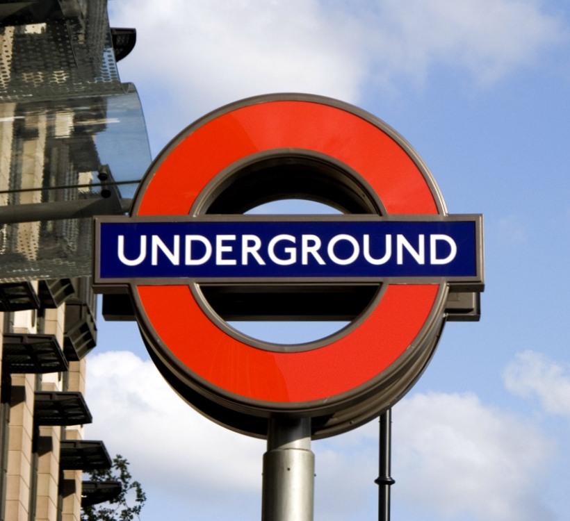 Photograph of the underground sign at Westminster underground station.